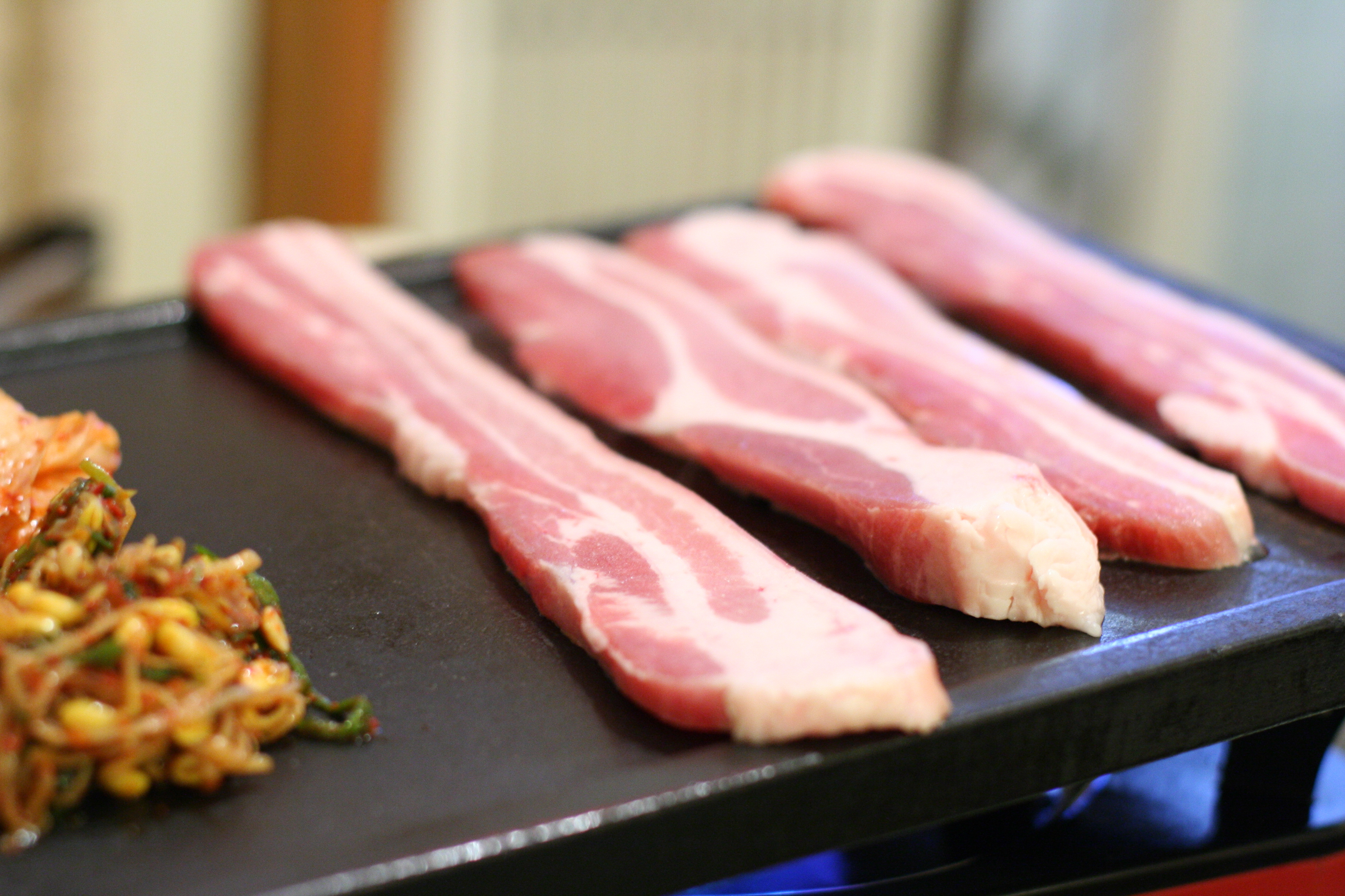 Korean pork belly-Samgyeopsal